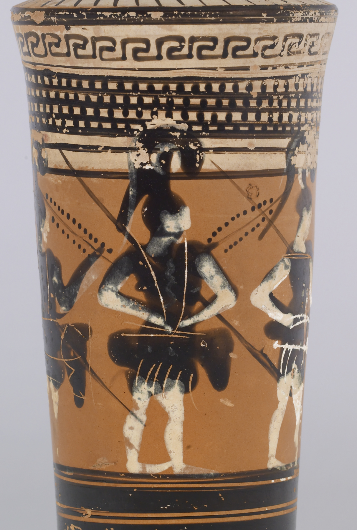 Three Amazons on this black-figure lekythos face right, and appear to march one after the other. Their skin is white, but their facial features, eroded or rubbed away, are indistinguishable. Each wears a helmet, holds a long spear and has a horizontal quiver. The middle figure holds both hands near her waist; the other two have one hand raised. Amazons are first mentioned in the "Iliad" (6.186) as allies of the Trojans; later authors emphasize their fearlessness and their status as foreigners. They were introduced on Attic vases in the early 6th century BC, and quickly became a popular subject. Early black-figure depictions of Amazons resemble Greek warriors, with one notable difference-their white skin color, which identifies them as "women." In red-figure vases, the Amazons acquire more feminine features and bodies, and their foreigness is emphasized by their attire: Scythian or Thracian clothing and subsequently Persian garb. In some places in Greece, Amazons were the object of cult. Jennifer Larson (1995, 111-16) has suggested that despite the fact that they were considered hostile to the Greeks, their complete otherness from the Greek way of life also gave them protective powers and entitled them to be worshiped as heroines.